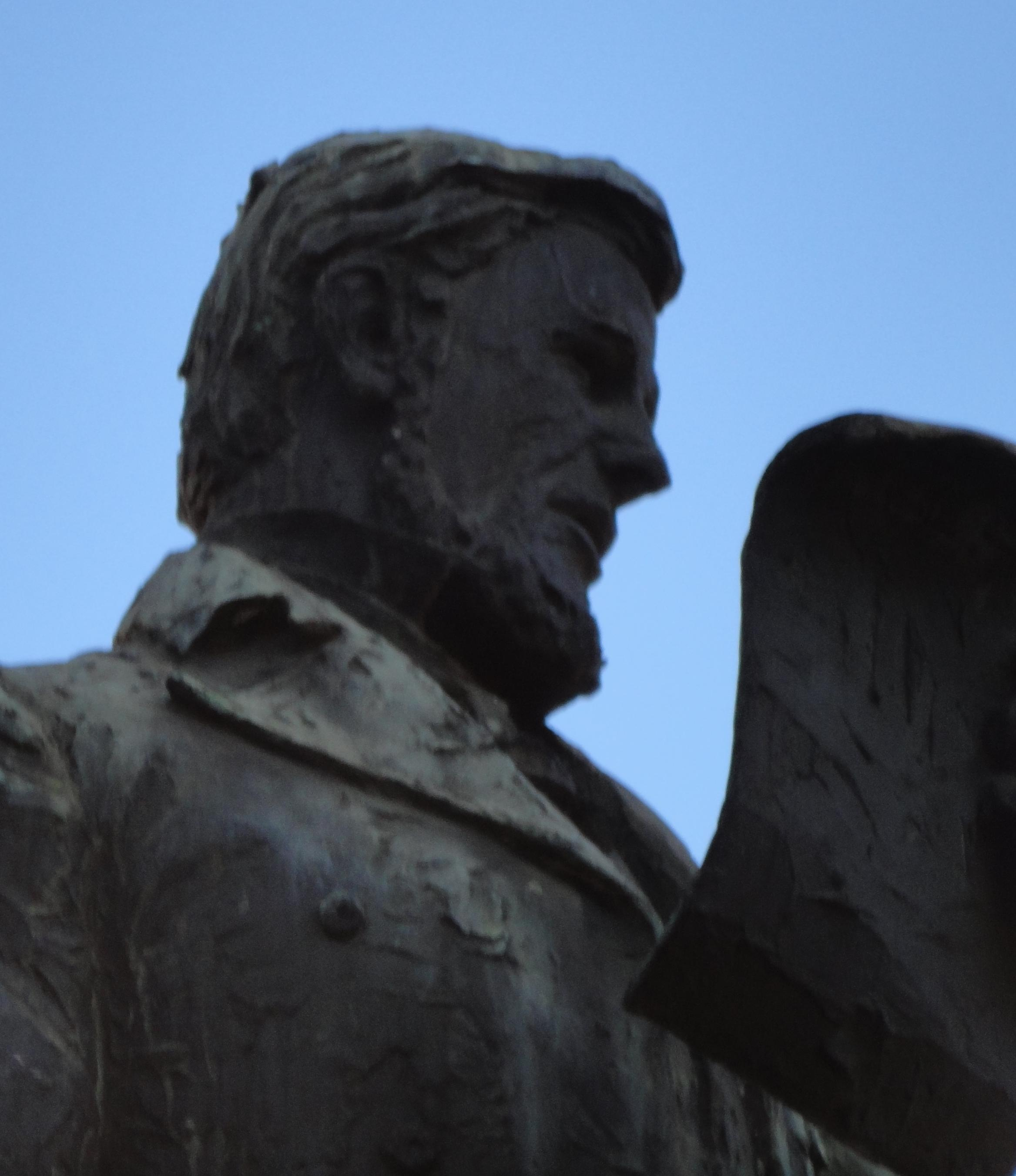 The statue of Gerrit Maritz by sculptor Jo Roos (1926-2010), was unveiled on 16 December 1970 in the Voortrekker Complex, Pietermaritzburg.